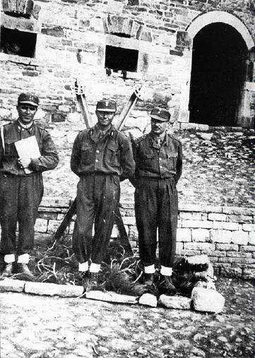 Greek Artilerry Major Ioannis Paparrodou (1904-1941), in Moscopole, in 25 March 1941 during the national celebractions.